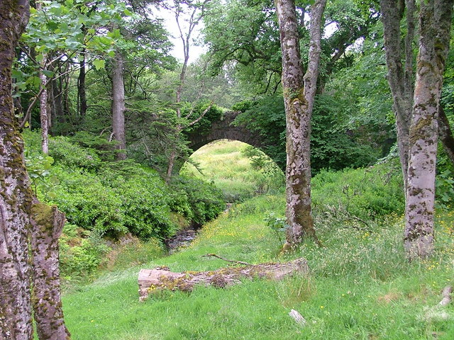 Bridge at Creed Lodge. One of the entrances to Lewes Castle grounds.